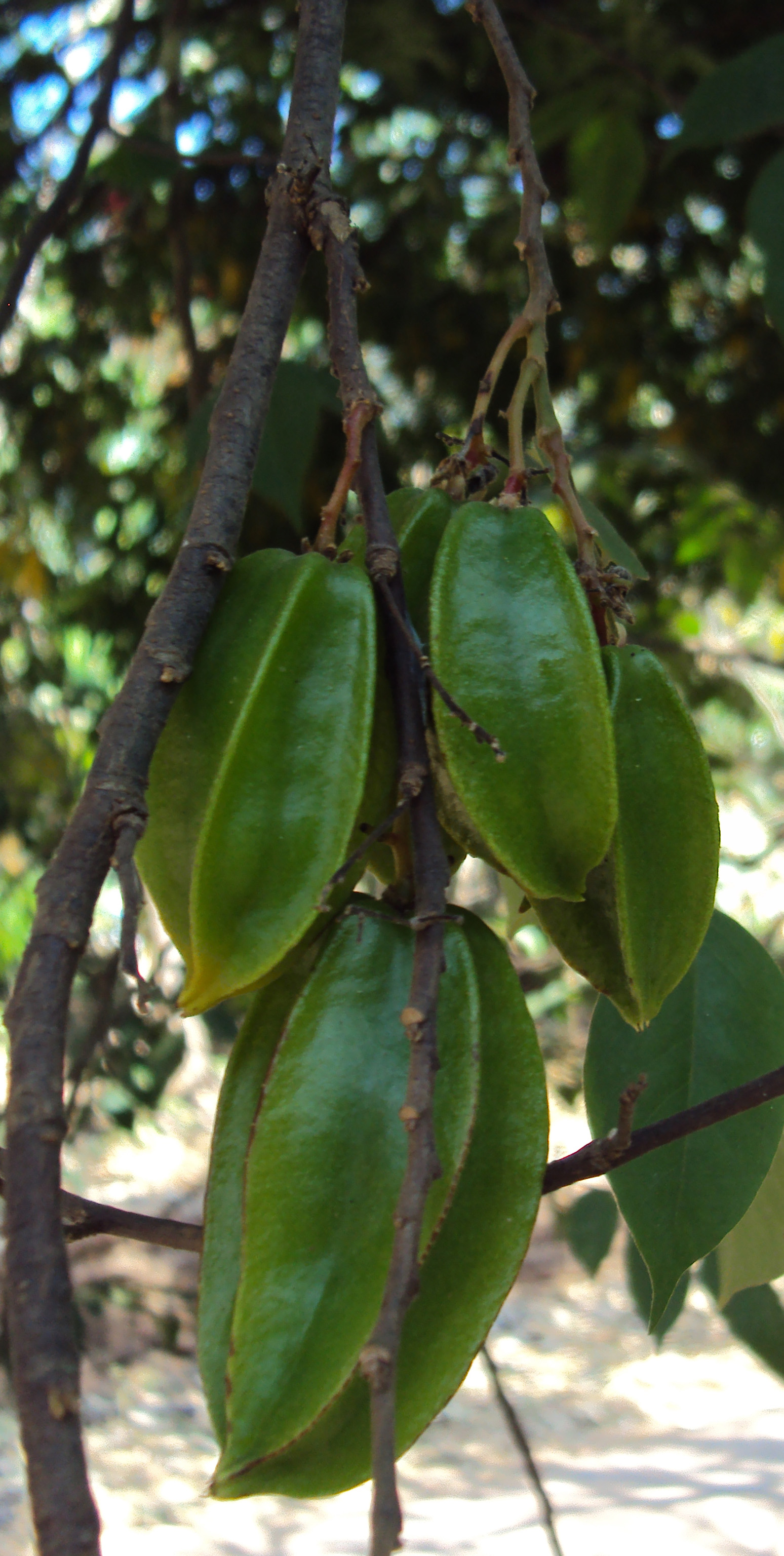 Averrhoa carambola